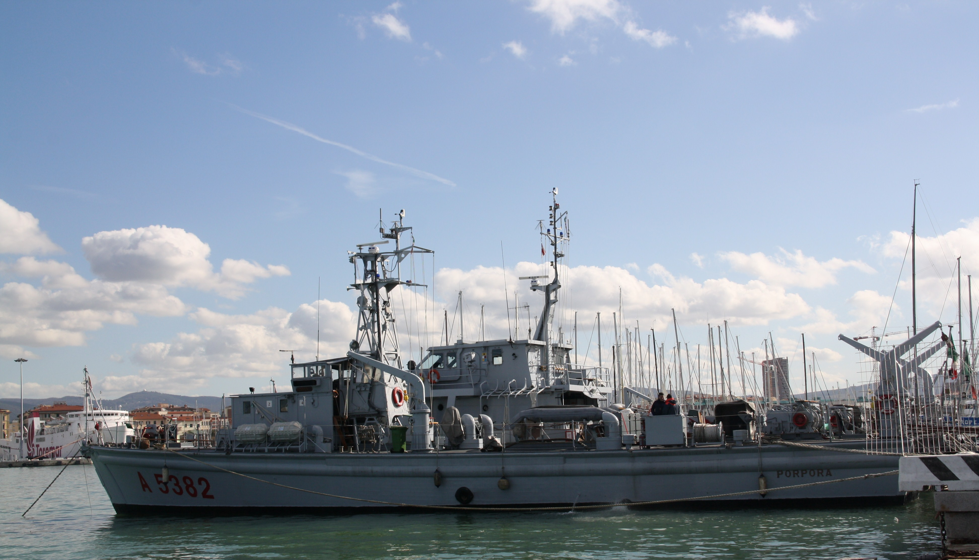 Italy,Marina Militare. The training ship Porpora (A 5382), once Aragosta class in-shore minesweeper, built by Costaguta Shipyard in Genova. Launched on June 13, 1957, completed and entered in service on July 10, 1957 with given pennant M 5464. On February 1, 1985 the ship was transferred to the 74th Training Naval Group with pennant A 5382 at La Spezia and Livorno as training ship for the Cadets of the Italian Naval Academy.